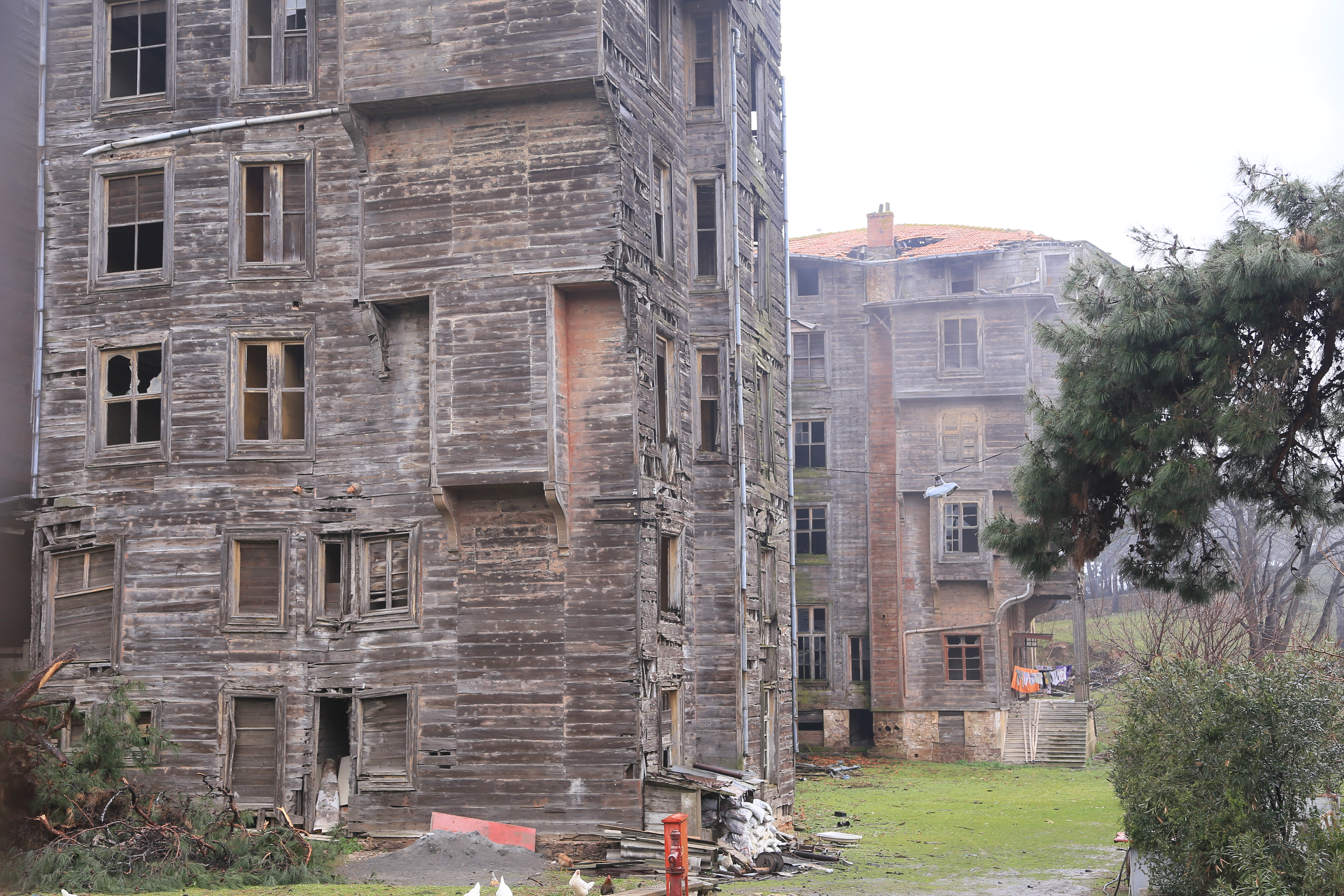 Büyükada Rum Yetimhanesi (Old Greek Orphanage), Istanbul